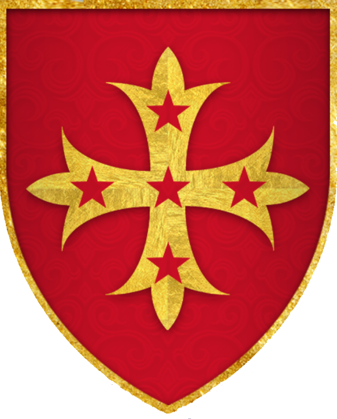 Coat of Arms of the Ughtred family of Kexby, Yorkshire.